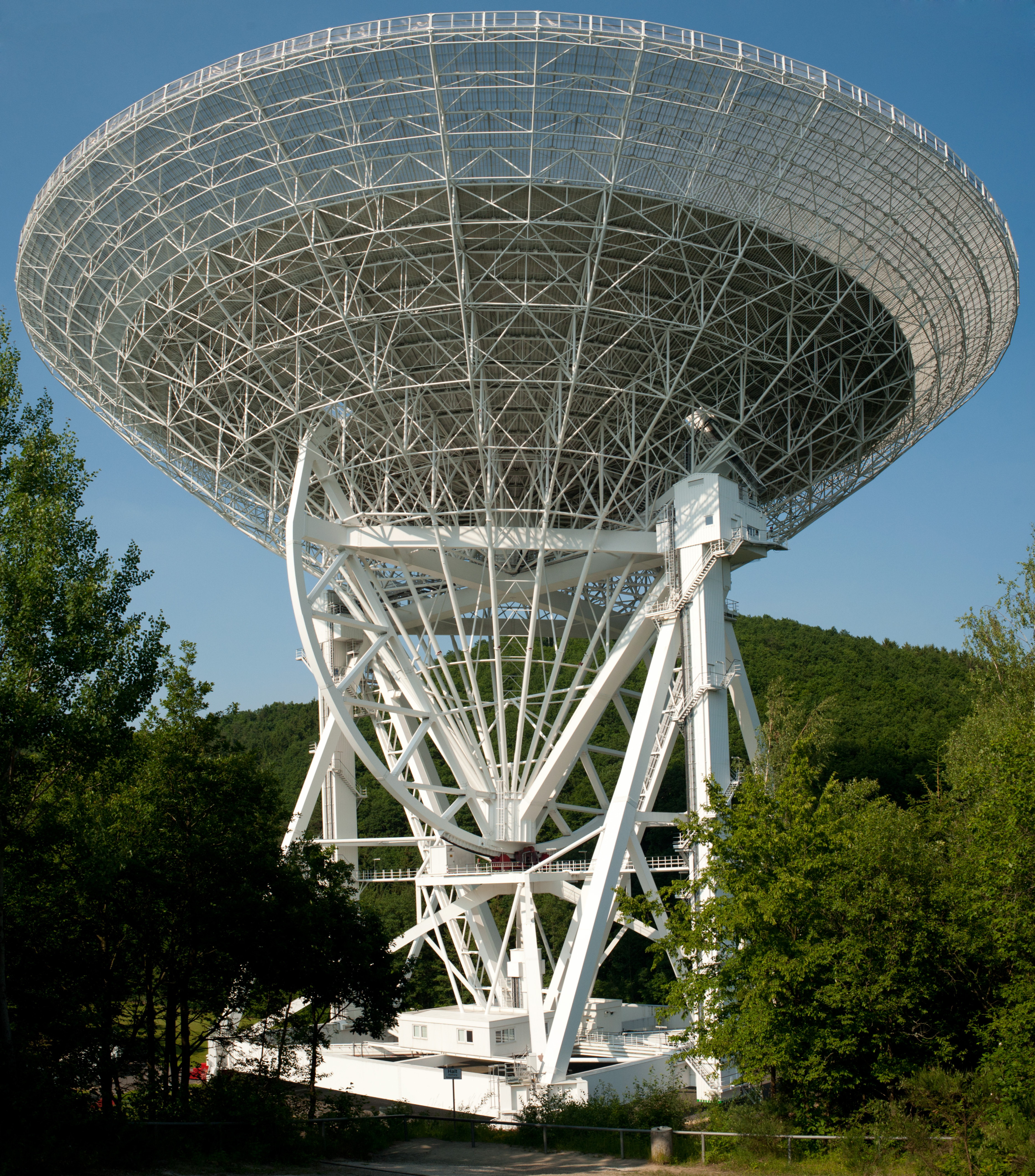 Full view of the telescope, shot from the viewing platform in front of the telescope. It was made as panorama, using 4 single images.